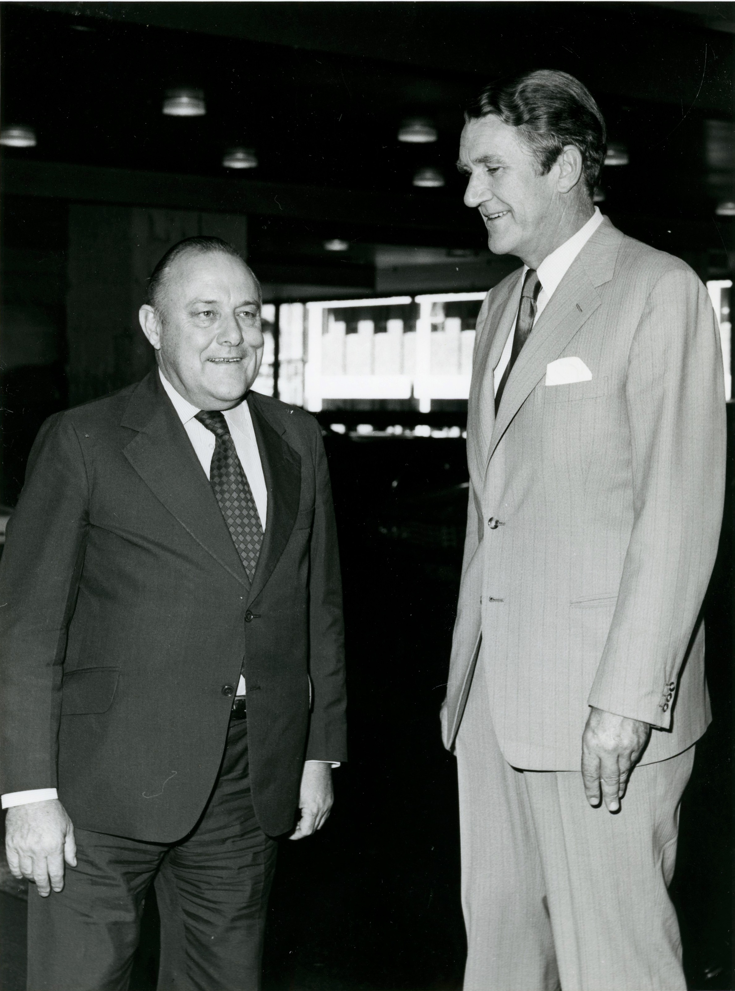 On May 21 1930, former Australian Prime Minister Malcolm Fraser was born in Toorak, Victoria, Australia. After completing a degree in Philosophy, Politics and Economics at Magdalen College, Oxford in 1952, he entered politics as the MP for Wannon in 1955. He was the 22nd Prime Minister of Australia and the leader of the Australian Liberal Party from 1975 to 1983. On 20 March 2015, Fraser died at the age of 84 after a brief illness. The image shown here is of Malcolm Fraser and the New Zealand Prime Minister Robert Muldoon, meeting in 1978 for the Commonwealth Heads of Government Regional Meeting in Sydney. This event was overshadowed by a bomb at the Sydney Hilton hotel which resulted in the deaths of 3 people. This image is from the papers of Robert Muldoon which were transferred to Archives New Zealand by Lady Thea Muldoon after Robert’s death. Reference: AAXO 8029 W4742 25/176 For updates on our On This Day series and news from Archives New Zealand, follow us on Twitter Material from Archives New Zealand